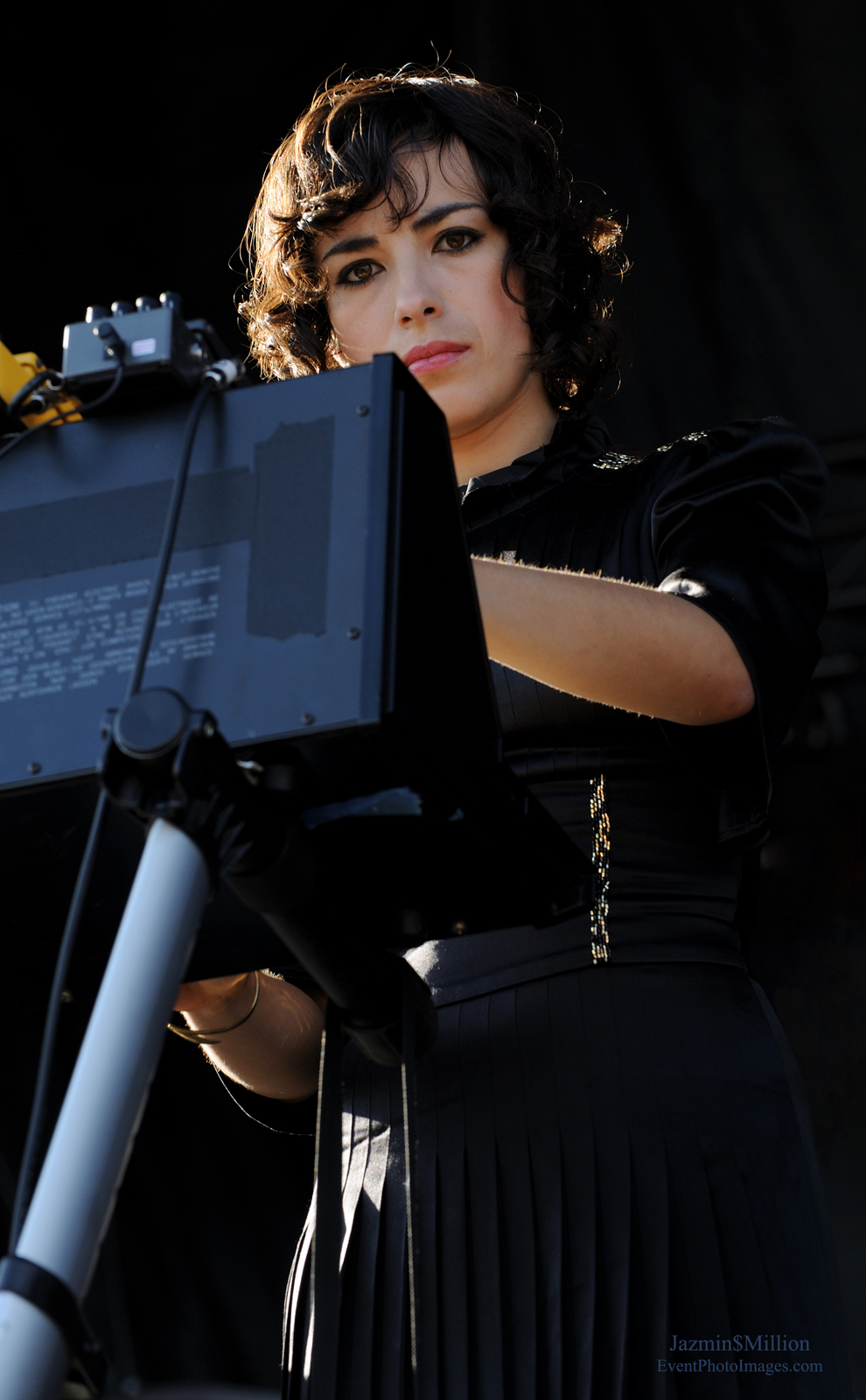 Ladytron's Mira Aroyo at 2008 Ottawa Bluesfest.